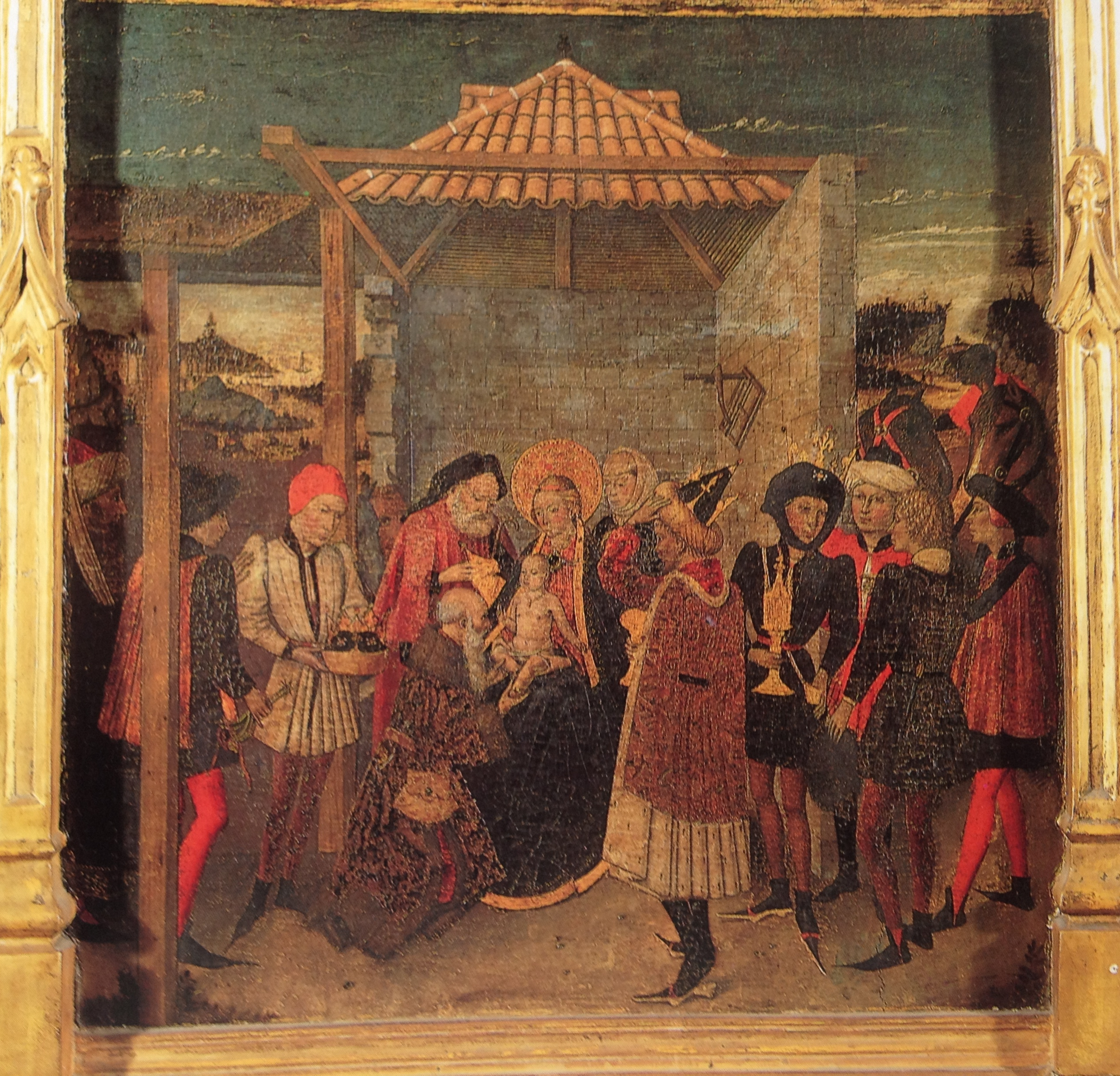 Jaume Huguet artwork Artist Jaume Huguet (1412–1492) DescriptionCatalan painterDate of birth/deathcirca 14121492Location of birth/deathVallsBarcelonaWork locationBarcelona, Zaragoza, TarragonaAuthority control VIAF: 96539132 ISNI: 0000 0001 1776 8460 ULAN: 500115623 LCCN: nr94026707 WGA: HUGUET, Jaume WorldCat TitleRetaule de l'Epifania, detallDescription Escena Epifania Datecirca 1455Mediumtempera on panel,DimensionsHeight: 122 cm (48 in). Width: 75 cm (29.5 in).Current location Museu Episcopal de Vic Native nameMuseu Episcopal de VicLocationVic, provincia de Barcelona, (Spain)Coordinates41° 55′ 43″ N, 2° 15′ 20″ E Established1891Website control VIAF: 136050720 ISNI: 0000 0001 2164 425X ULAN: 500312506 LCCN: n85118280 GND: 1088816096 WorldCat Source/PhotographerOwn workPermission (Reusing this file) This is a faithful photographic reproduction of a two-dimensional, public domain work of art. The work of art itself is in the public domain for the following reason: This work is in the public domain in its country of origin and other countries and areas where the copyright term is the author's life plus 100 years or less. You must also include a United States public domain tag to indicate why this work is in the public domain in the United States. This file has been identified as being free of known restrictions under copyright law, including all related and neighboring rights. The official position taken by the Wikimedia Foundation is that "faithful reproductions of two-dimensional public domain works of art are public domain". This photographic reproduction is therefore also considered to be in the public domain in the United States. In other jurisdictions, re-use of this content may be restricted; see Reuse of PD-Art photographs for details. Escena Epifania